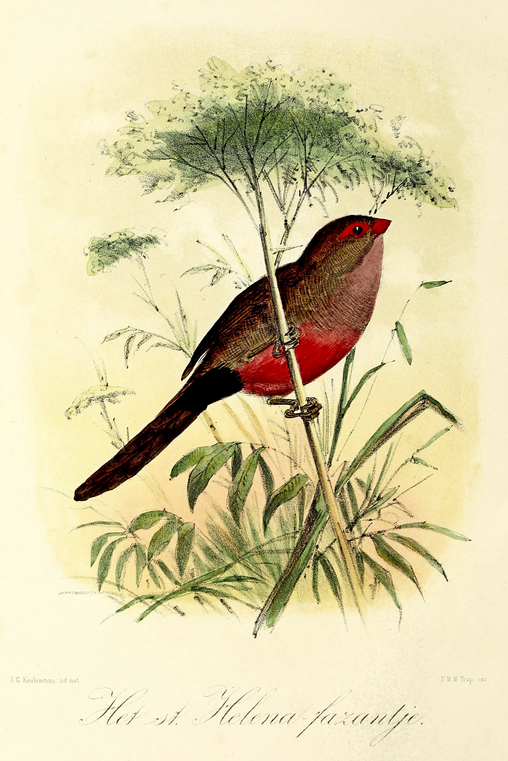 « Estrelda astrild » = Estrilda astrild (Common waxbill)